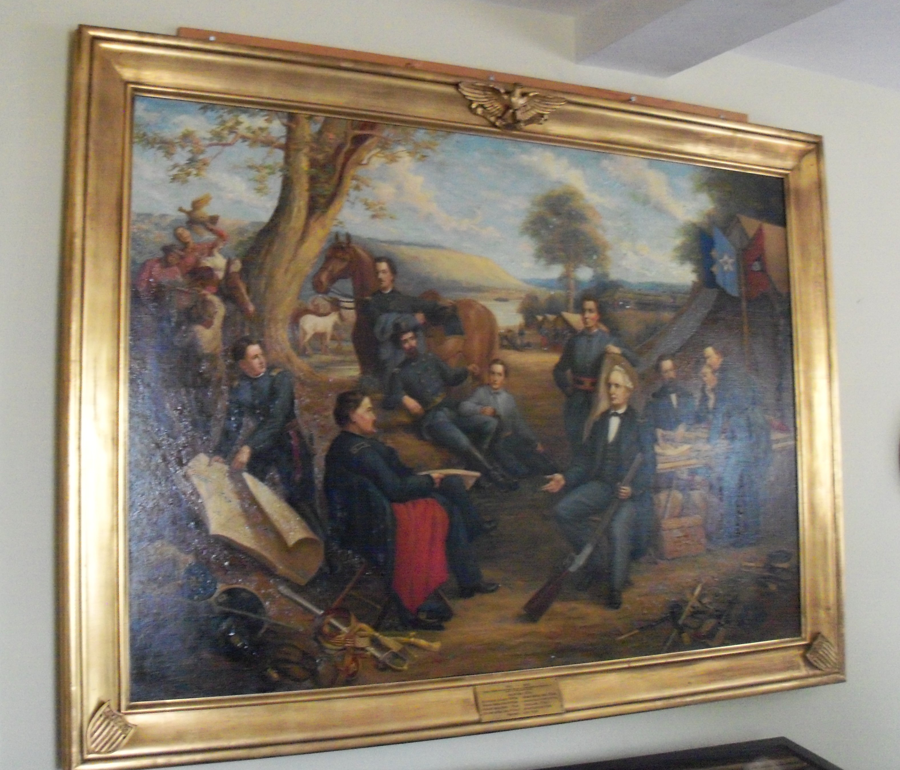 an old painting of family of Daniel McCook (1798-1863) displayed at the Daniel McCook House in Carrollton, Ohio. Plaque at bottom of painting reads: 1861-1865 Daniel McCook and his nine sons all of whom served in the army or navy of the United States Major Daniel McCook Major General Alexander McD. McCook Brigadier General Edwin S. McCook Brigadier General George W. McCook Surgeon Major Latimer A. McCook Brigadier General Robert L. McCook Captain John J. McCook Brigadier General Daniel McCook, Jr. Private Charles M. McCook Midshipman J. James McCook